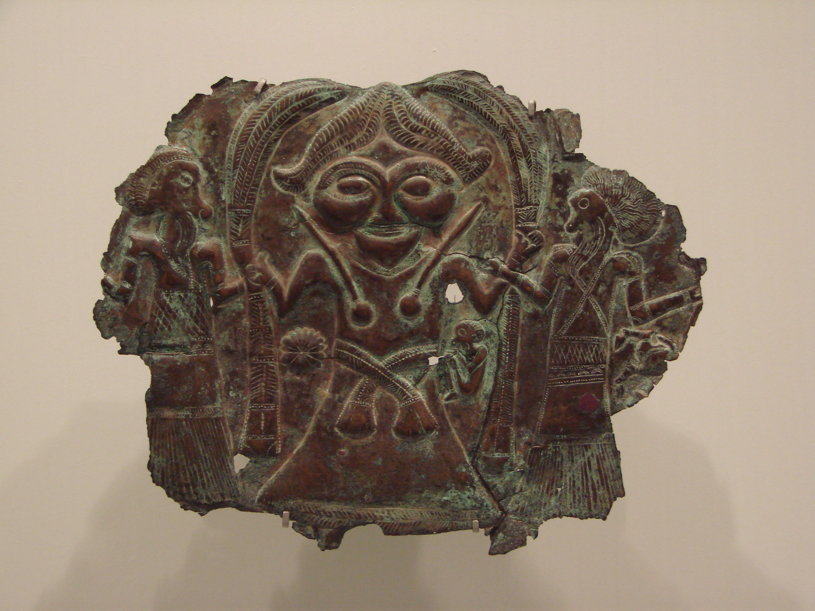 Metal (bronze) sheet and beakers with chased scenes. Found in Luristan, Iran. See upper